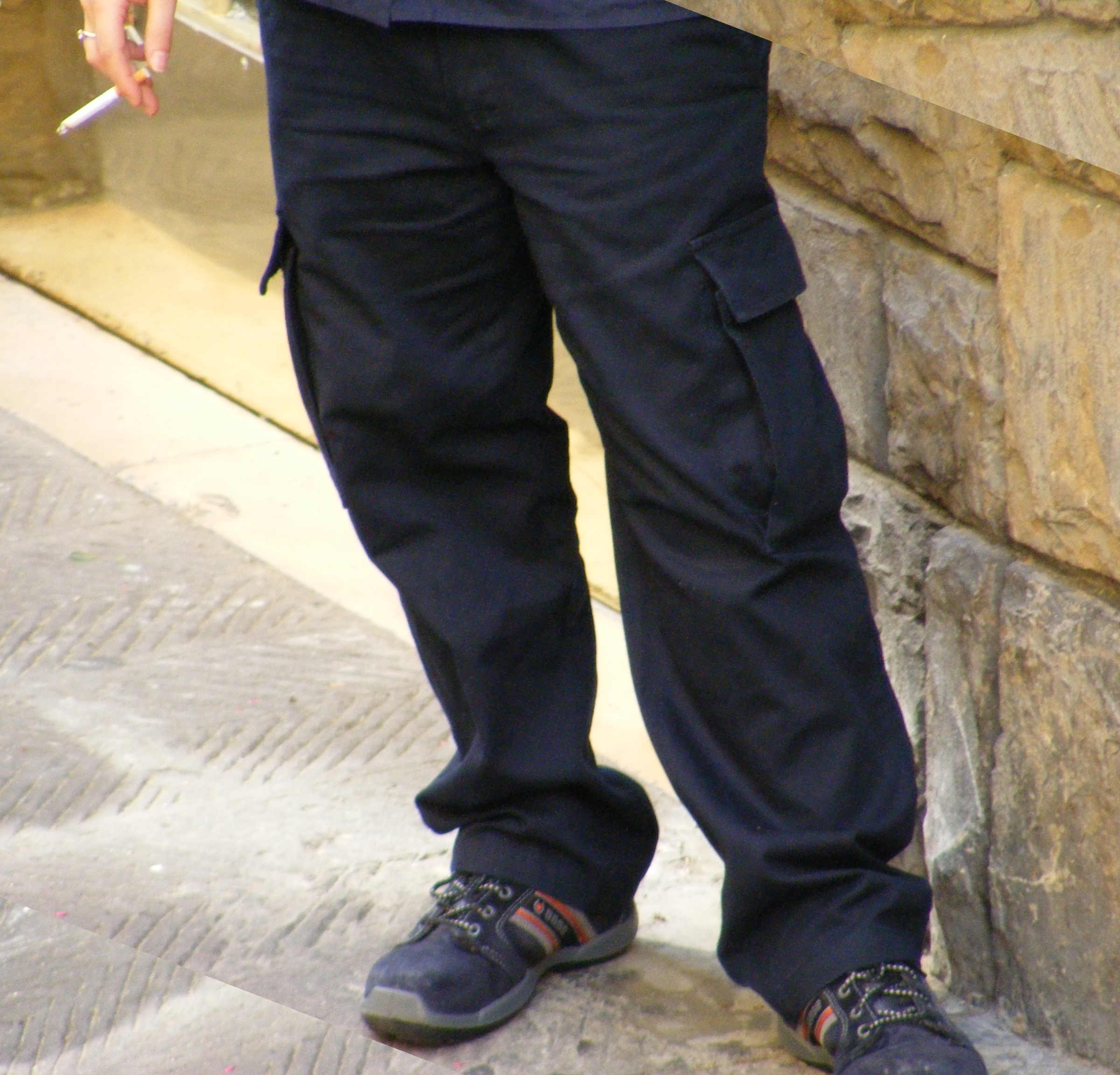 cargo pant, worn by a female, seen in Florence, Italy